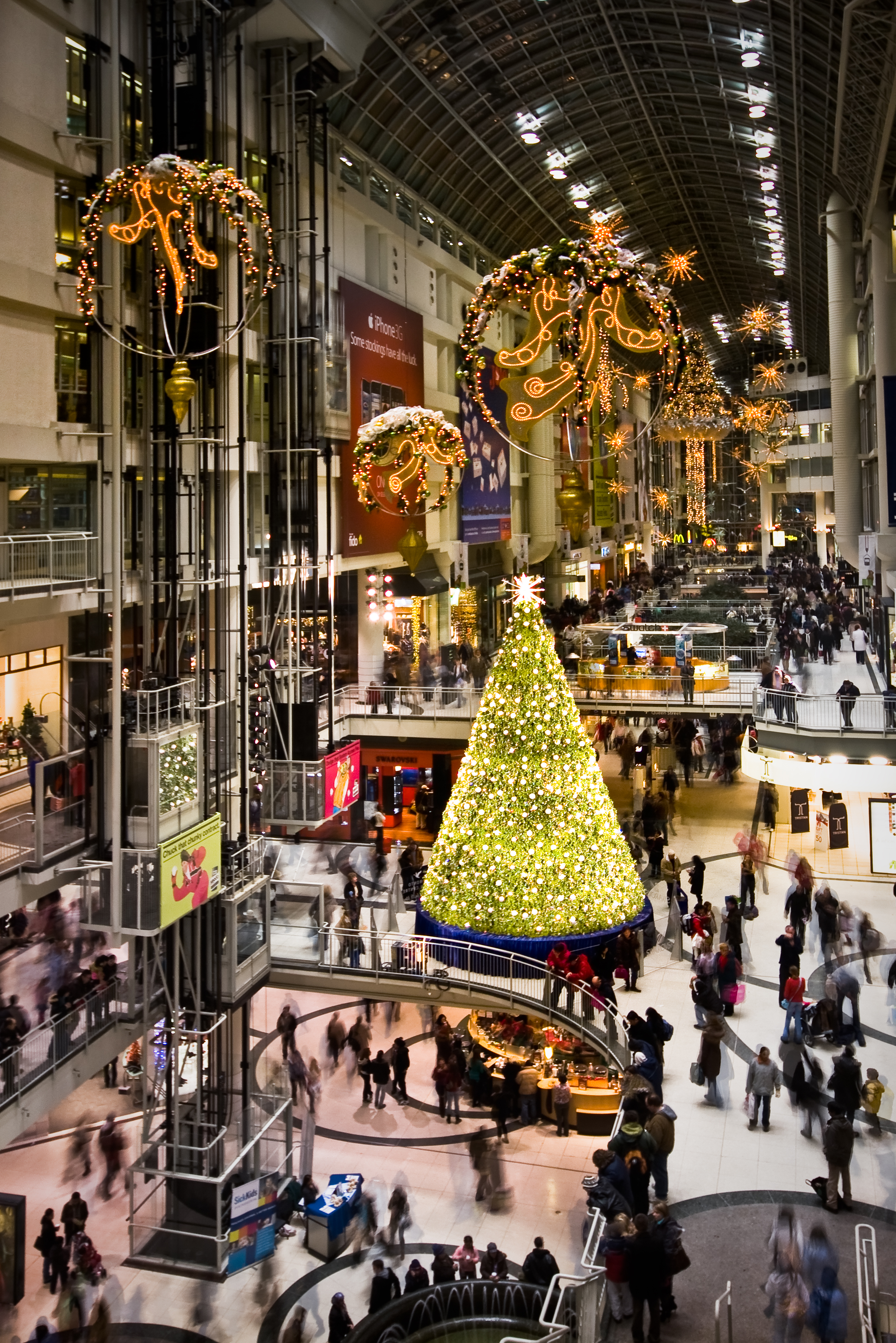 Holiday shoppers at the Toronto Eaton Centre.